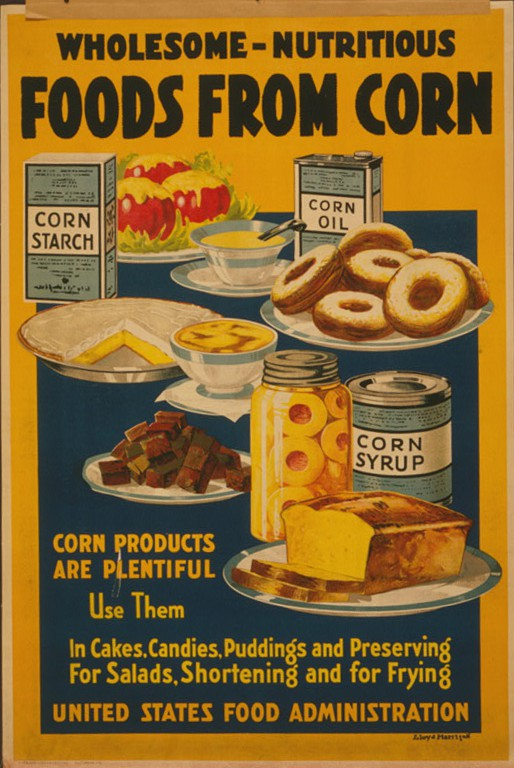 Title: Wholesome - nutritious foods from corn / Lloyd Harrison. Creator(s): Harrison, Lloyd, artist Date Created/Published: Baltimore: Harrison-Landauer Inc., [1918] Medium: 1 print (poster) : lithograph, color ; 75 x 50 cm. Summary: Poster showing an assortment of foods and dishes, along with corn starch, corn oil, and corn syrup. Reproduction Number: LC-USZC4-7910 (color film copy transparency) Call Number: POS - WWI - US, no. 176 (C size) [P&P] Repository: Library of Congress Prints and Photographs Division Washington, D.C. 20540 USA Notes: Title continues: Corn products are plentiful. Use them in cakes, candies, puddings and preserving, for salads, shortening and for frying. United States Food Administration. (cropped and rotated using GIMP)